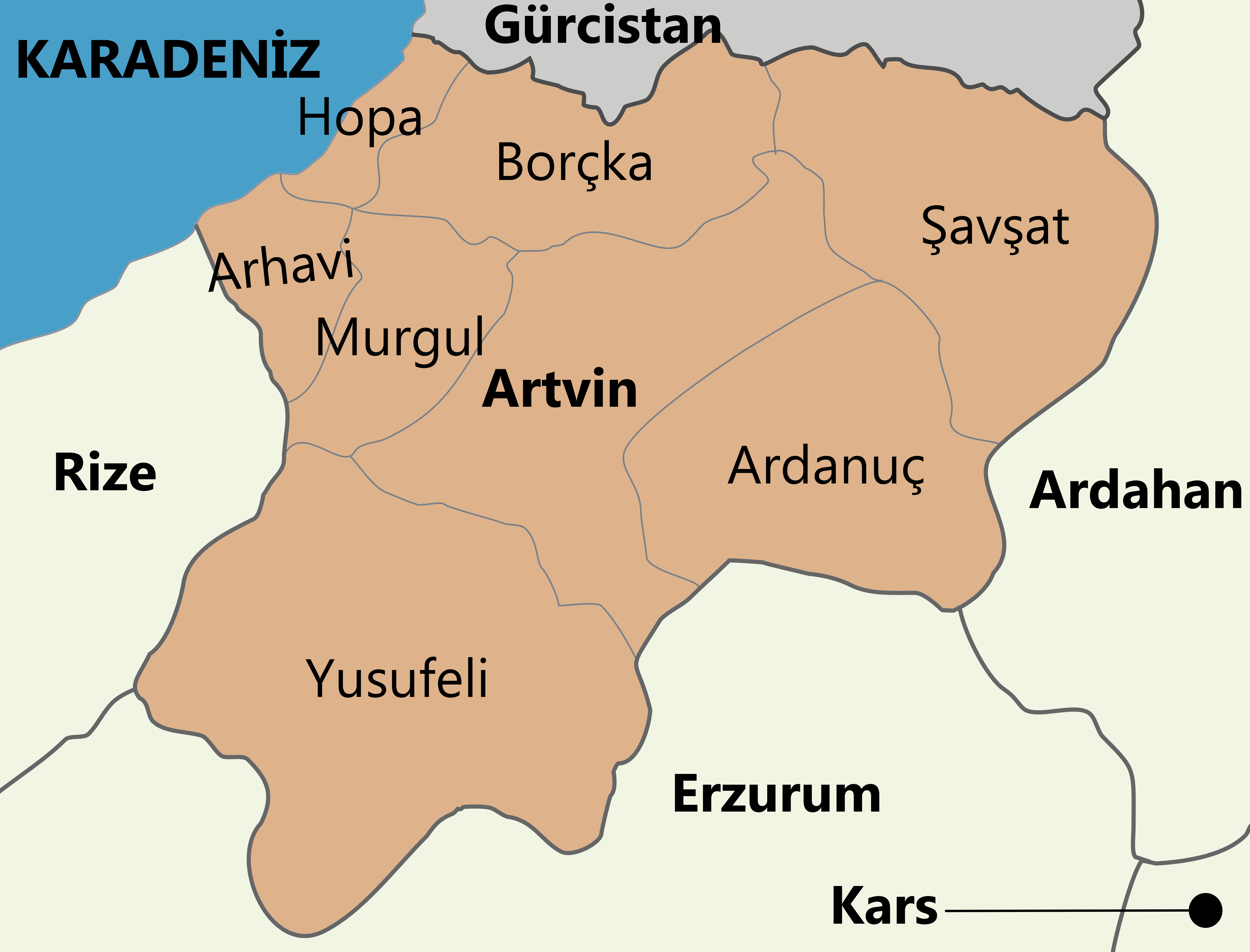 Map of the Districts of the Artvin Province, Turkey.